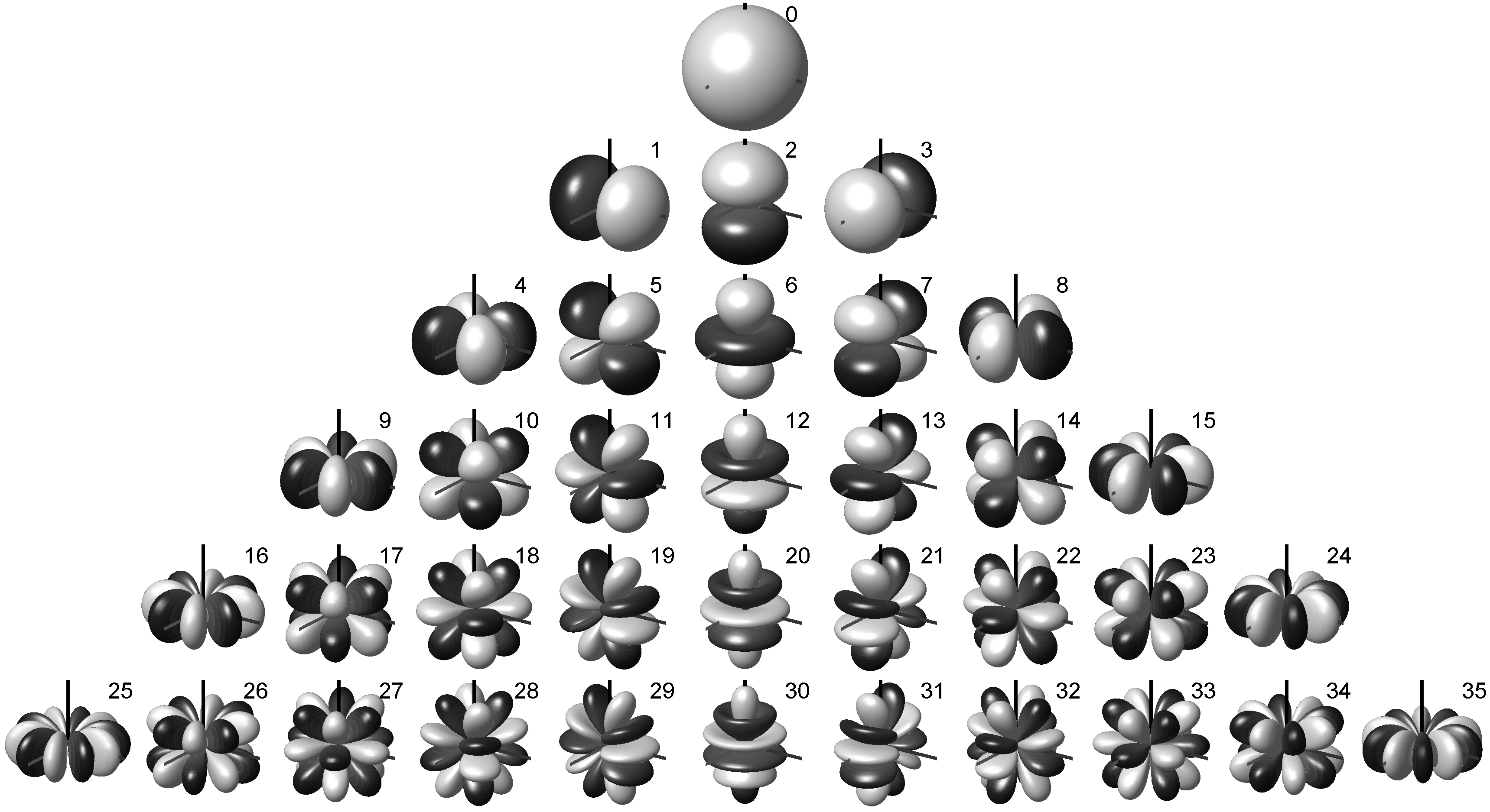 Spherical Harmonics up to degree 5, as used in fifth-order Ambisonics